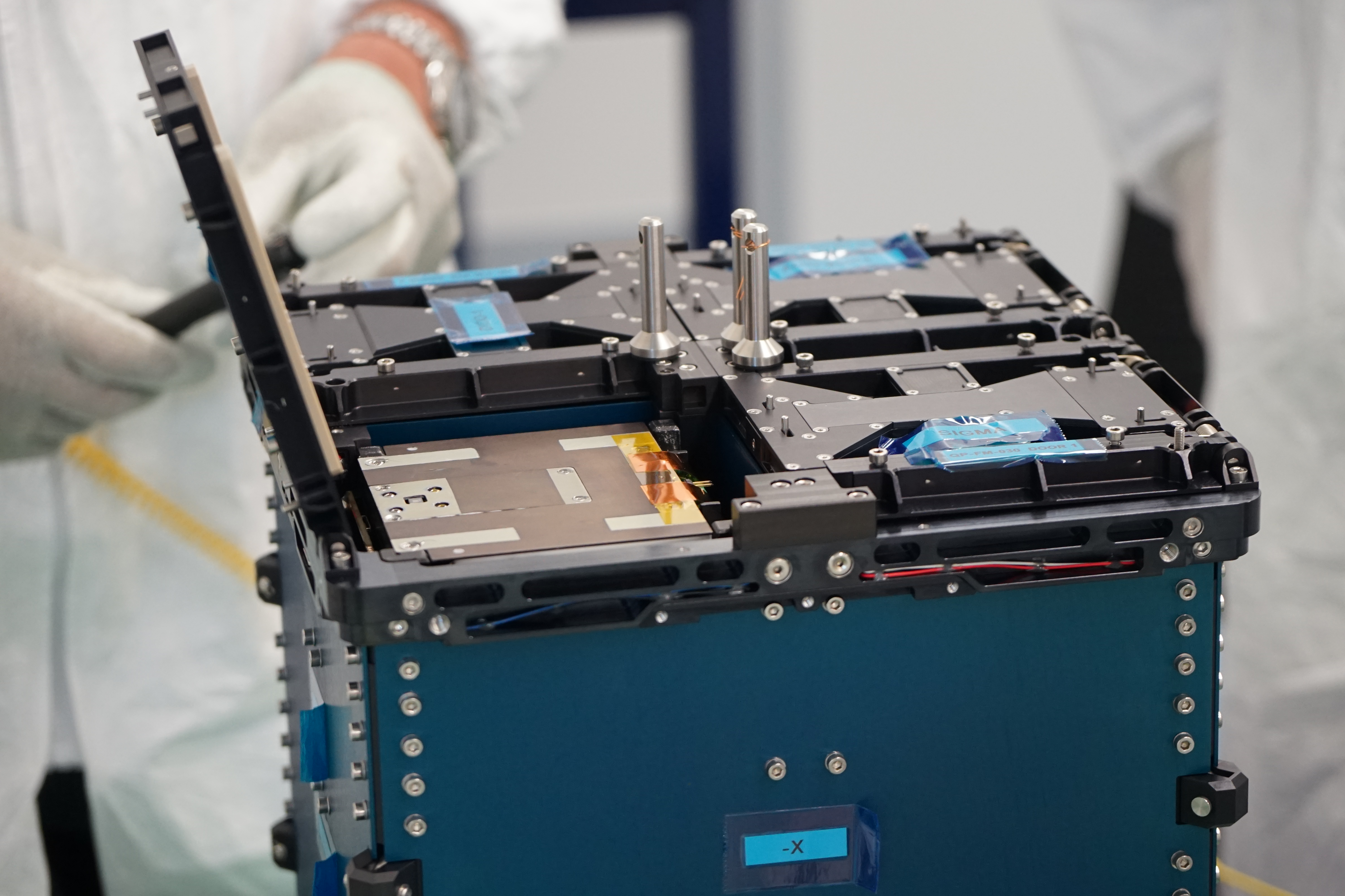 Aalto-1 integrated into a Quadpack launch adapter on 12 May 2016. The satellite is in the compartment with the hatch open.